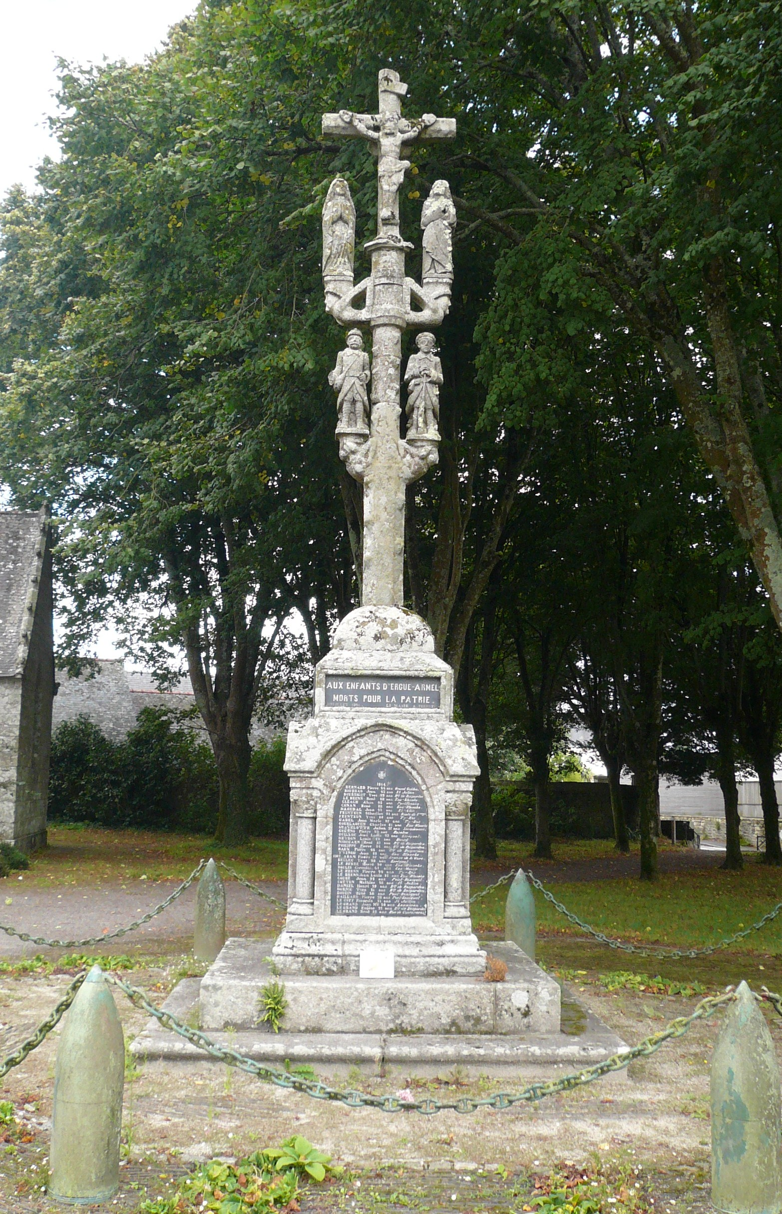 1914-1918 memorial near St. Alor church in Ergué-Armel, city of Quimper, Finistère, Brittany, France. Made by Charles Chaussepied (1866-1930)